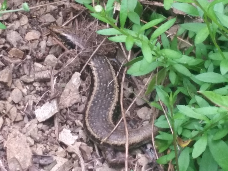 Northern Spotted Skink at Zealandia via iNaturalist observation